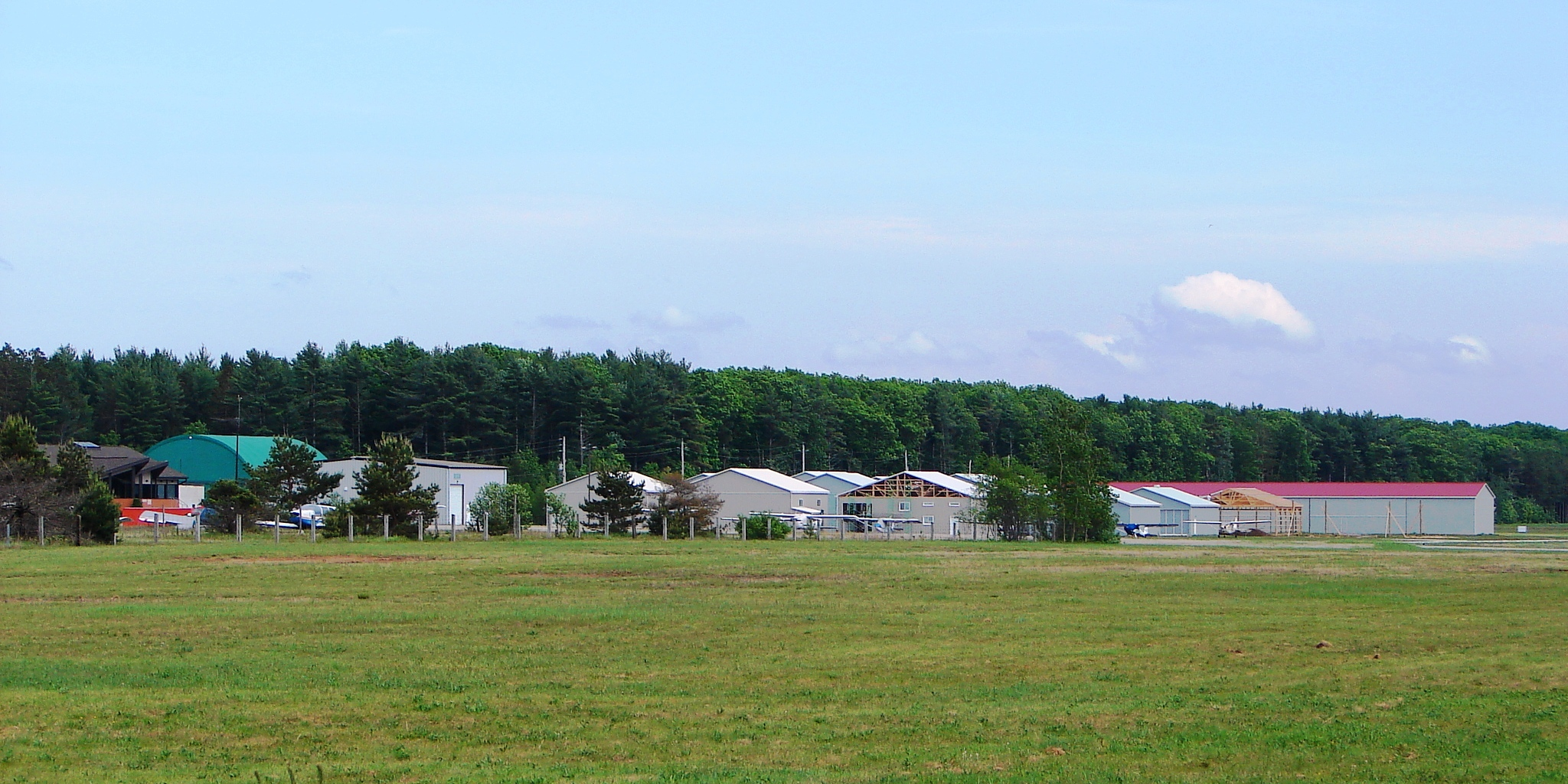 Midland/Huronia Airport in Tiny Township, Ontario, Canada